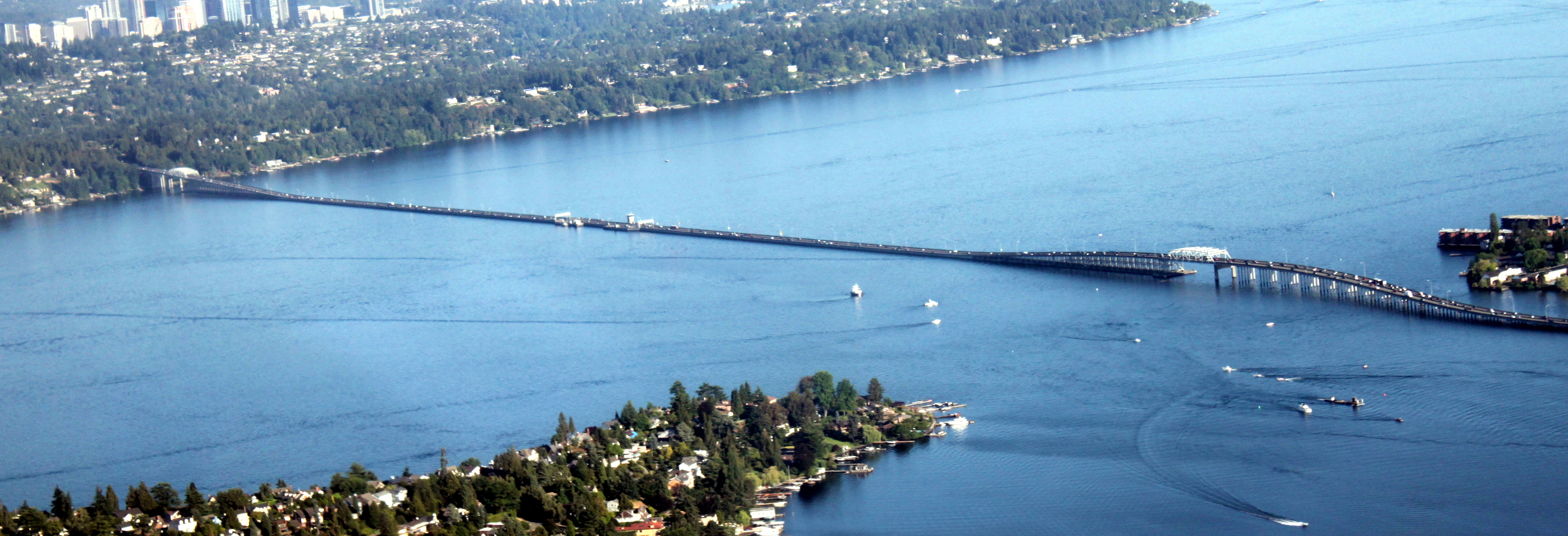 A picture of the Evergreen Point Floating Bridge (520 bridge) in Seattle, Washington, shot from about 1,500', looking south-east.